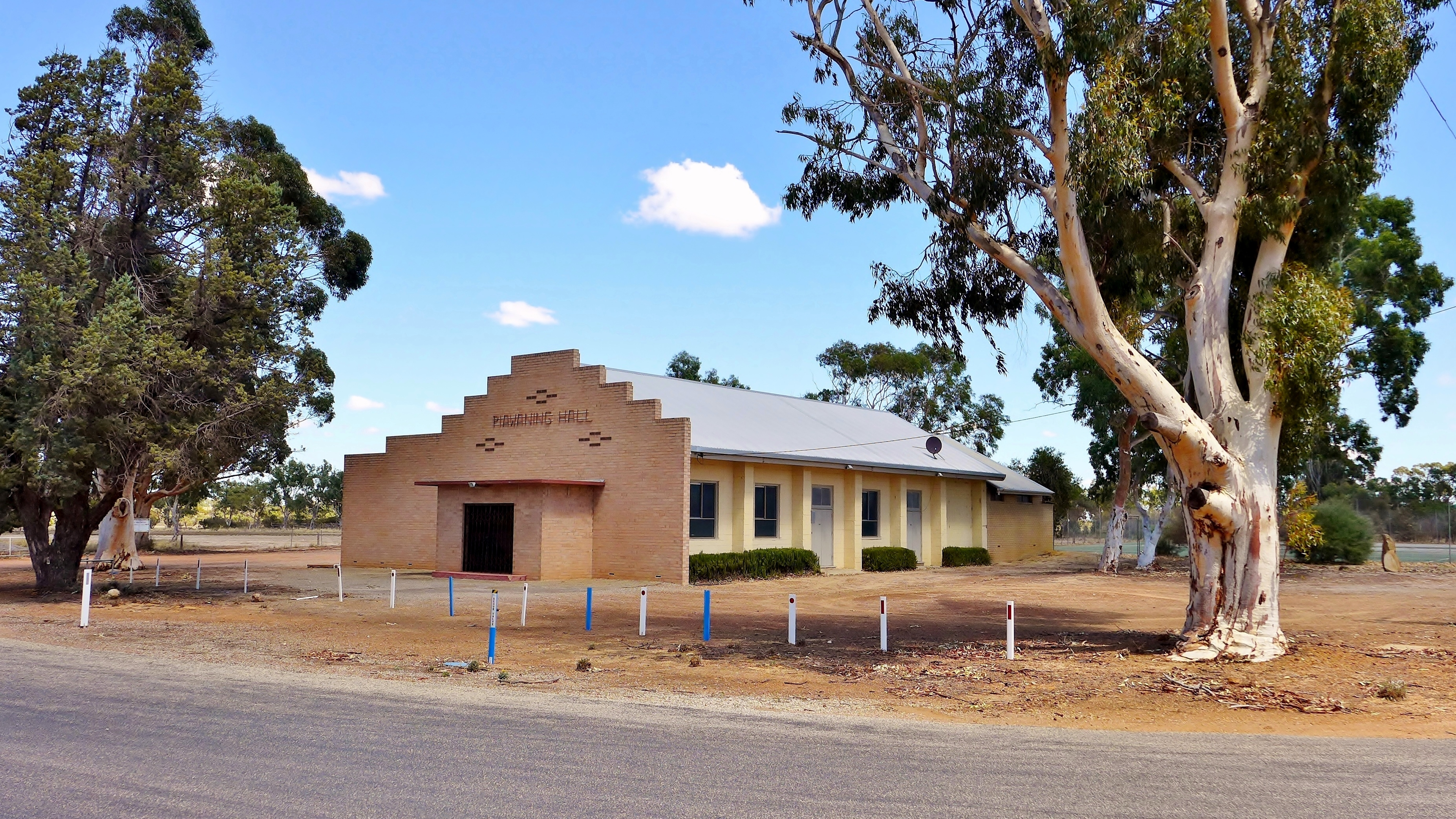 View of Piawaning Hall, Piawaning, Western Australia. It was built adjacent to the site of the Piawaning school, and was opened in April 1959. The brick stepped parapet wall at the front was added in the early 1970s, and the toilets at the back in the late 1970s.